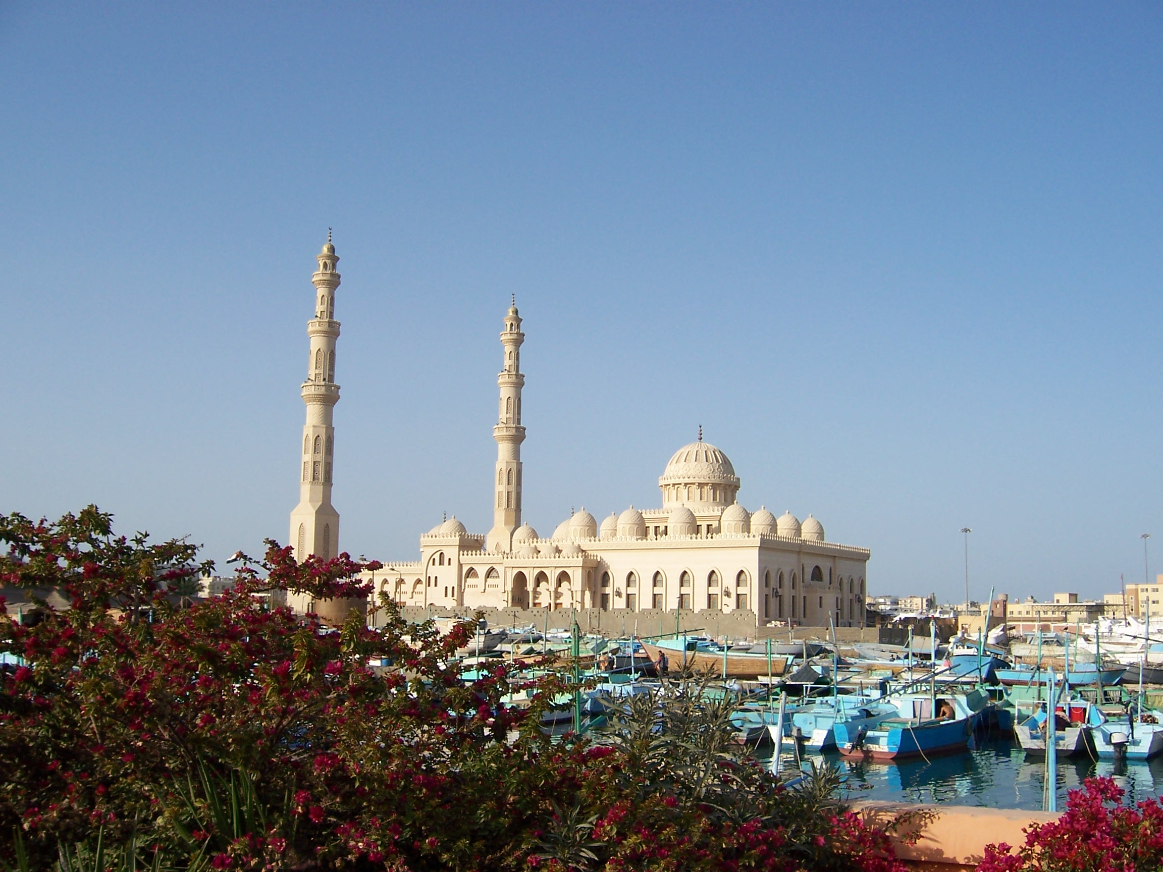 El-Mina Moschee in Hurghada; February 2015